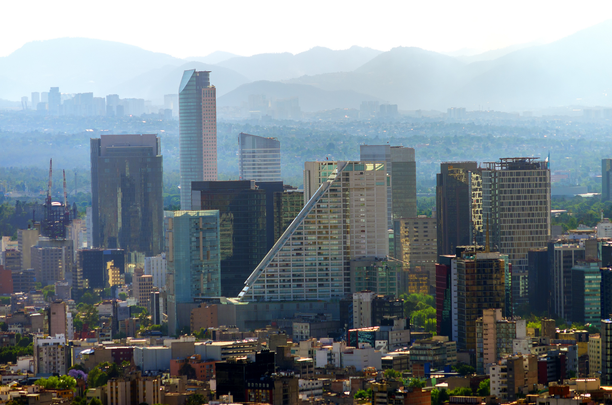 Paseo de la Reforma.